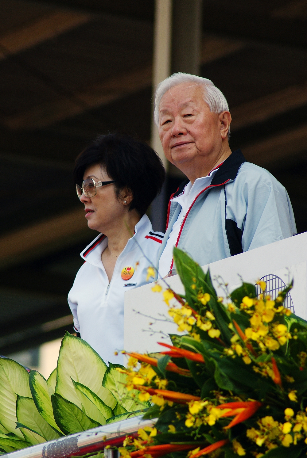 Morris Chang and Sophia Chang Bân-lâm-gú: 張忠謀佮伊的牽手張淑芬